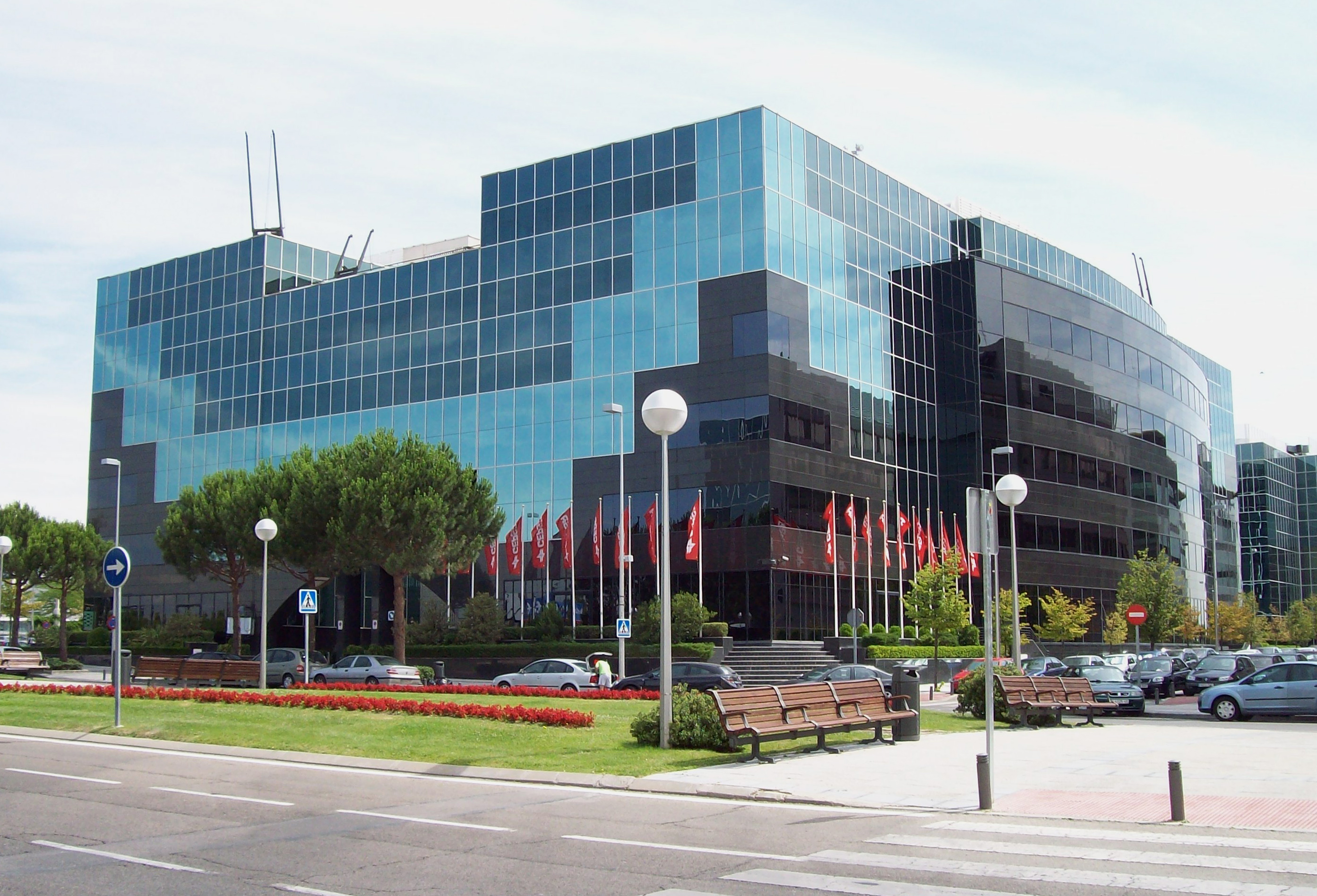 View of CEPSA headquarters in Campo de las Naciones in Madrid (Spain).